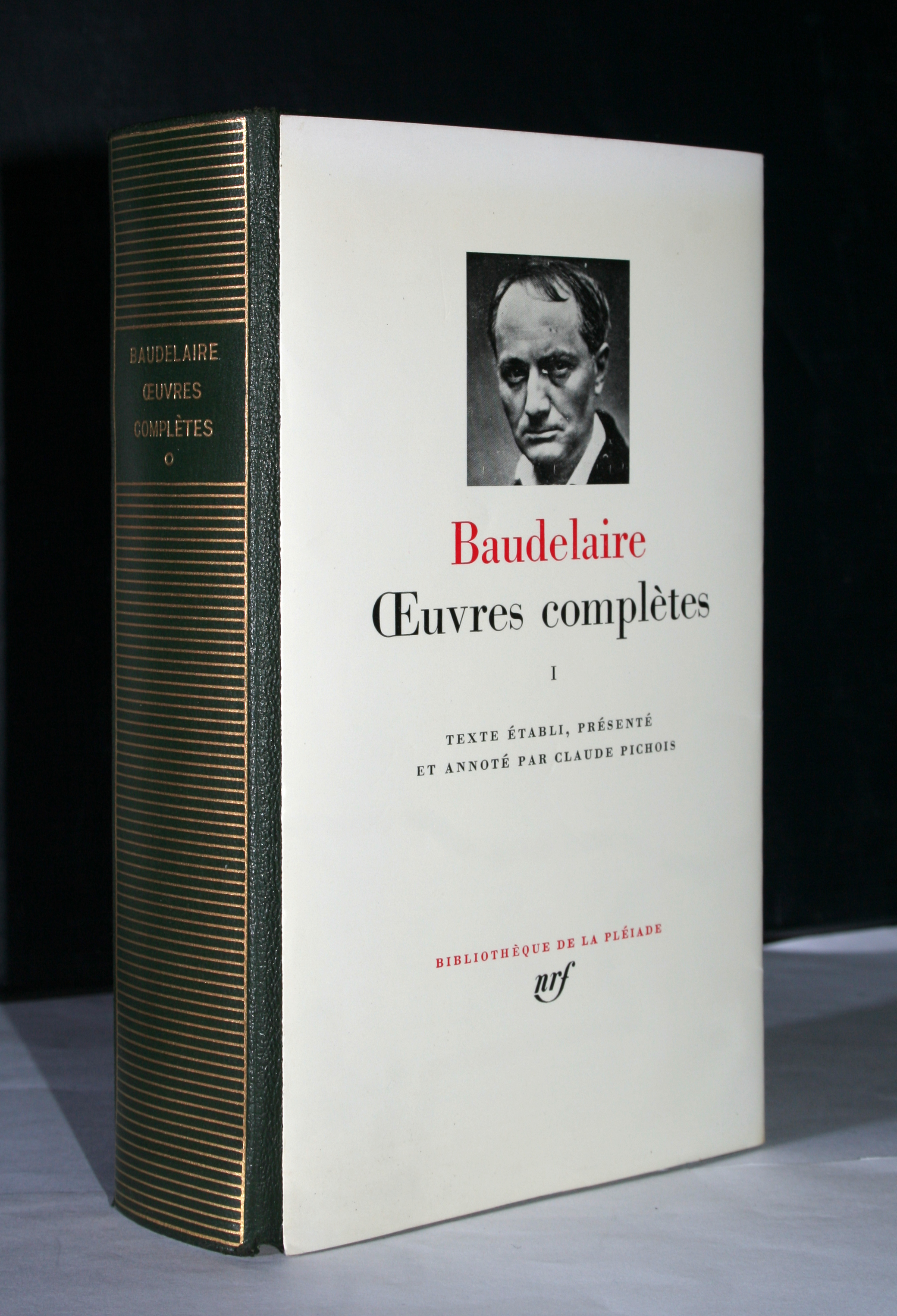 Baudelaire, published by Gallimard, collection La Pléiade, Complete Works, volume I. 1975 edition. Picture by Carjat (1862).